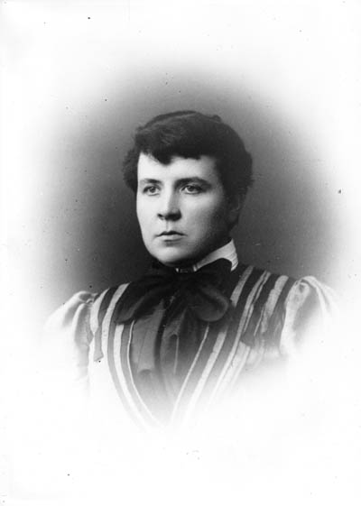 MD, 1867–1936, First Finnish woman to achieve a doctoral degree.